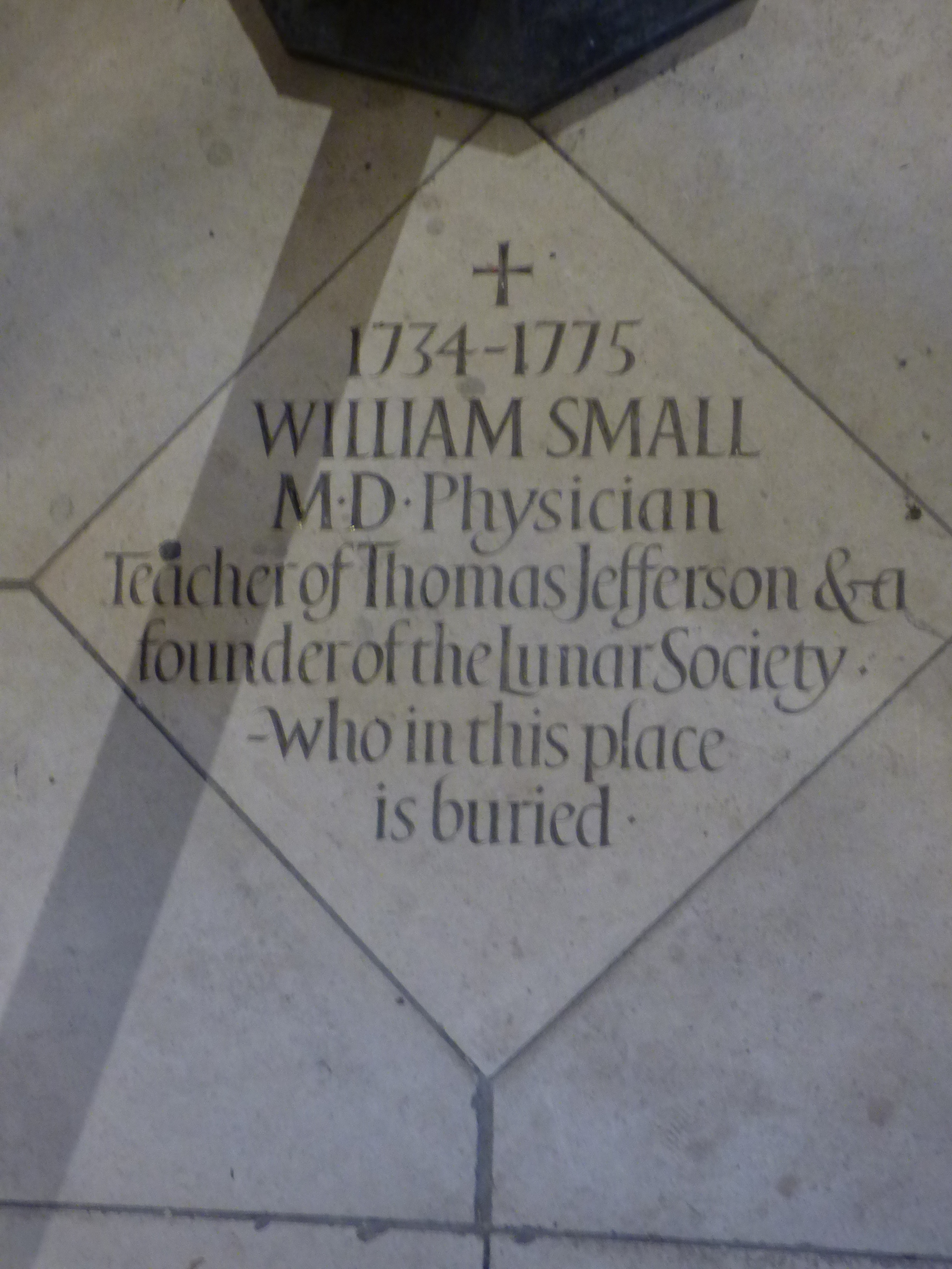 The interior of Birmingham Cathedral. Built from 1715. Cathedral status 1905. Designed by Thomas Archer. J A Chatwin made alterations in the late 19th century. Memorials in the cathedral. Floor memorial to William Small. 1734 - 1775 William Small MD Physician Teacher of Thomas Jefferson & a founder of the Lunar Society. Who in this place is buried.